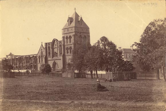 Format: Photograph Find more detailed information about this photograph: .au/item/itemLarge.aspx?itemID=412199 Information about photographic collections of the State Library of New South Wales: .au/search/SimpleSearch.aspx From the collection of the State Library of New South Wales